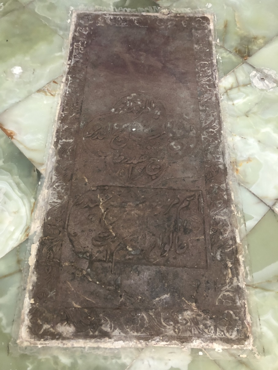 Sheikh Choghondar Tomb